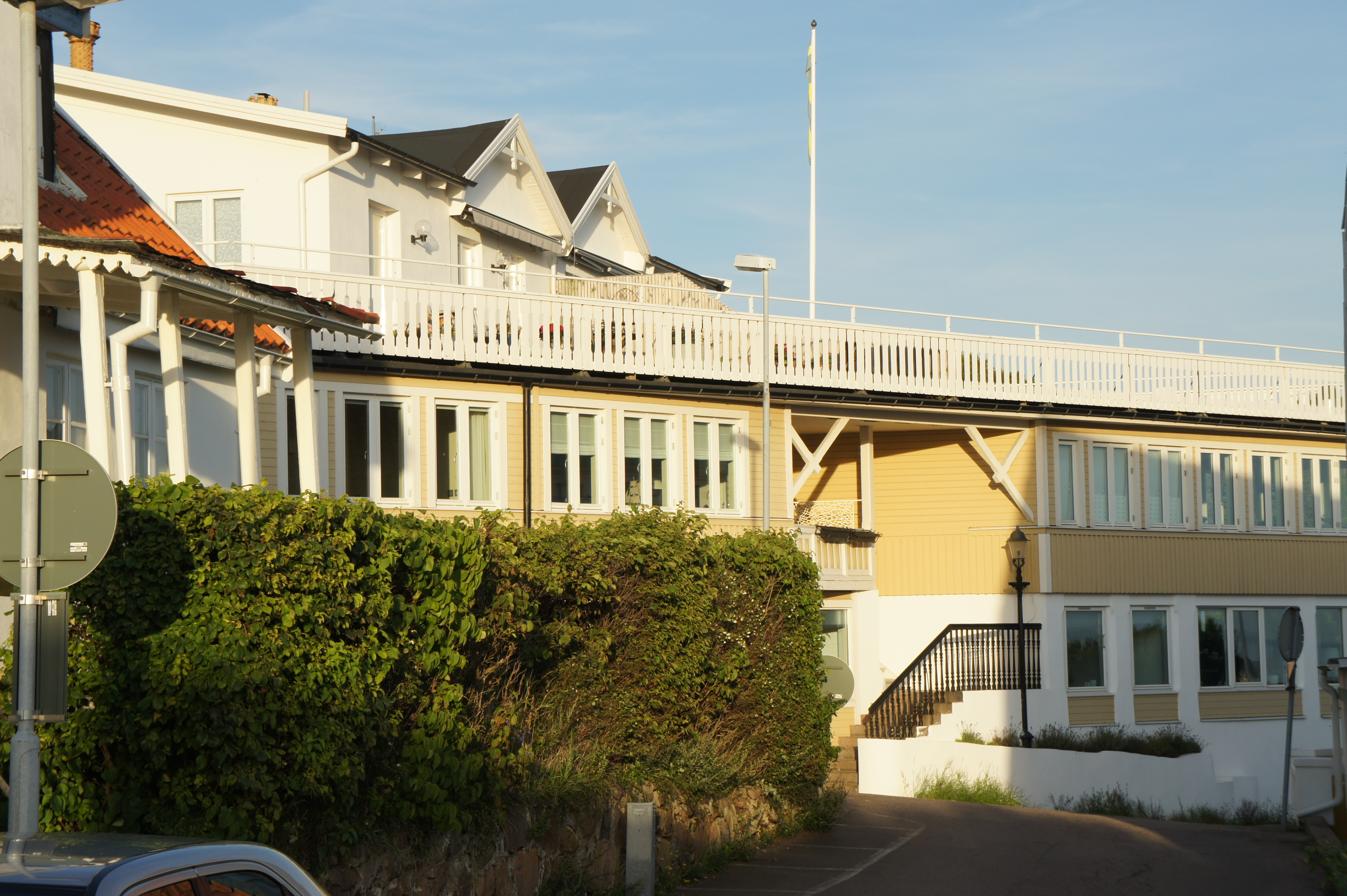 Hotel Mölleberg, Mölle, Sweden in 2011